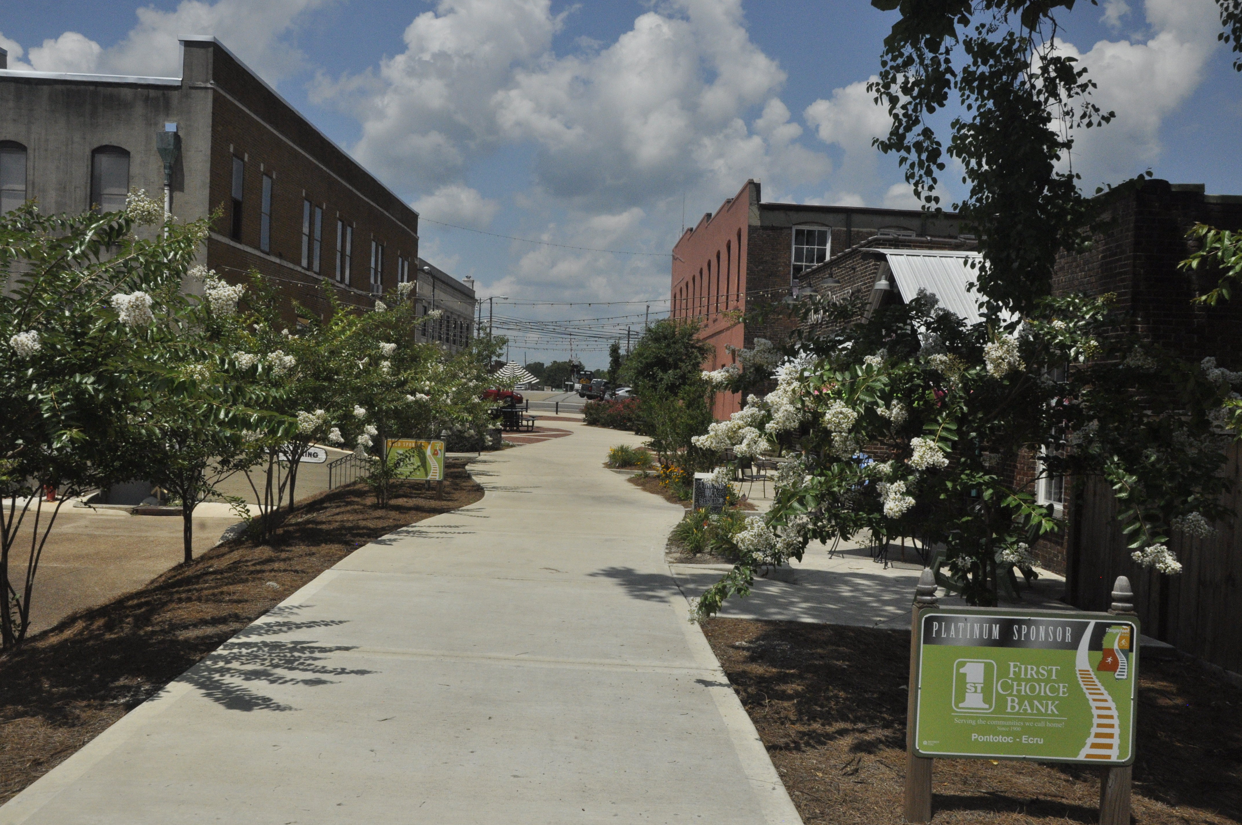 Bankhead Street is the main street through the business district of this small southern town and is lined with shops and even allows parking in the middle of the street.